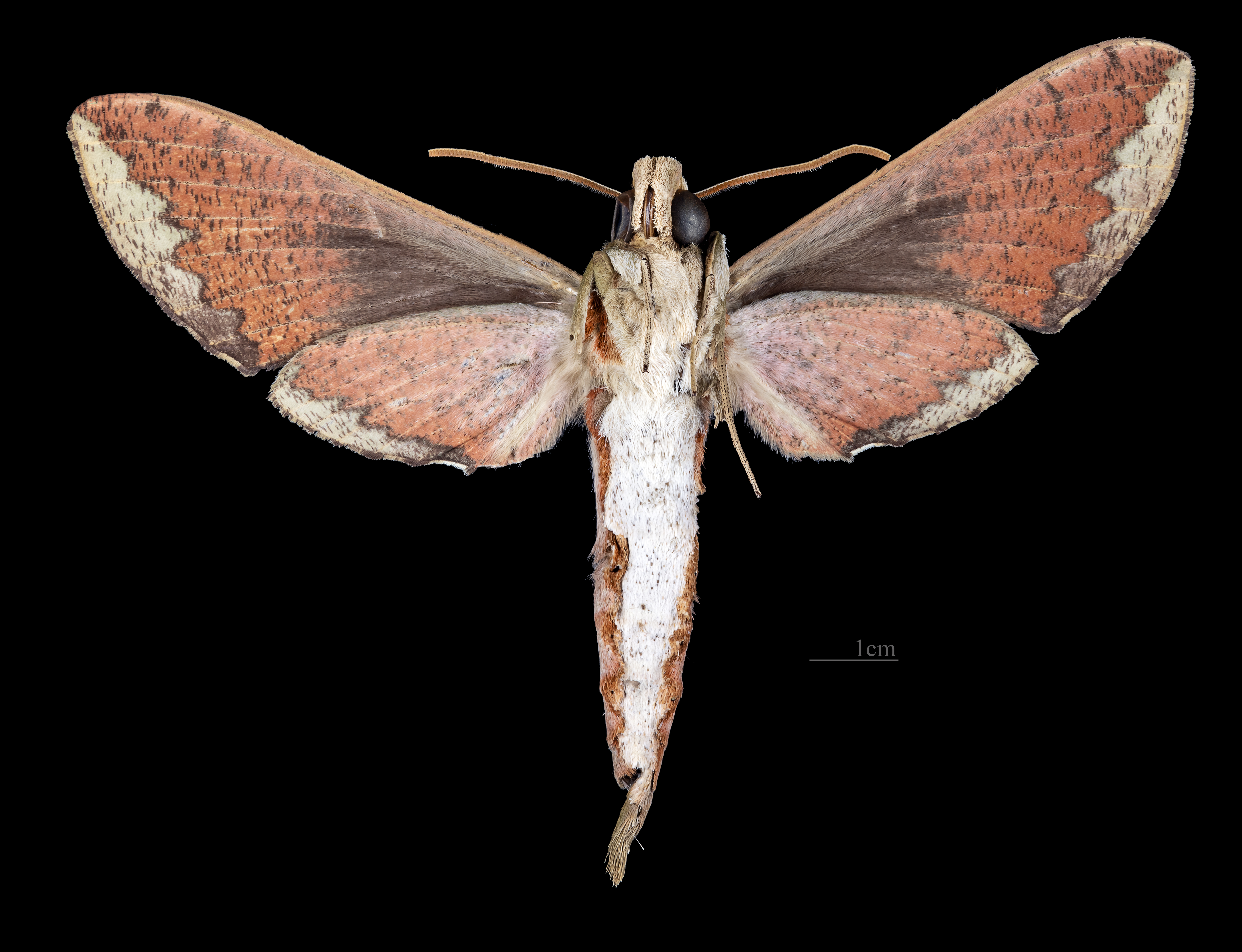 Xylophanes rothschildi - △ Ventral side Collection of the Mathematician Laurent Schwartz